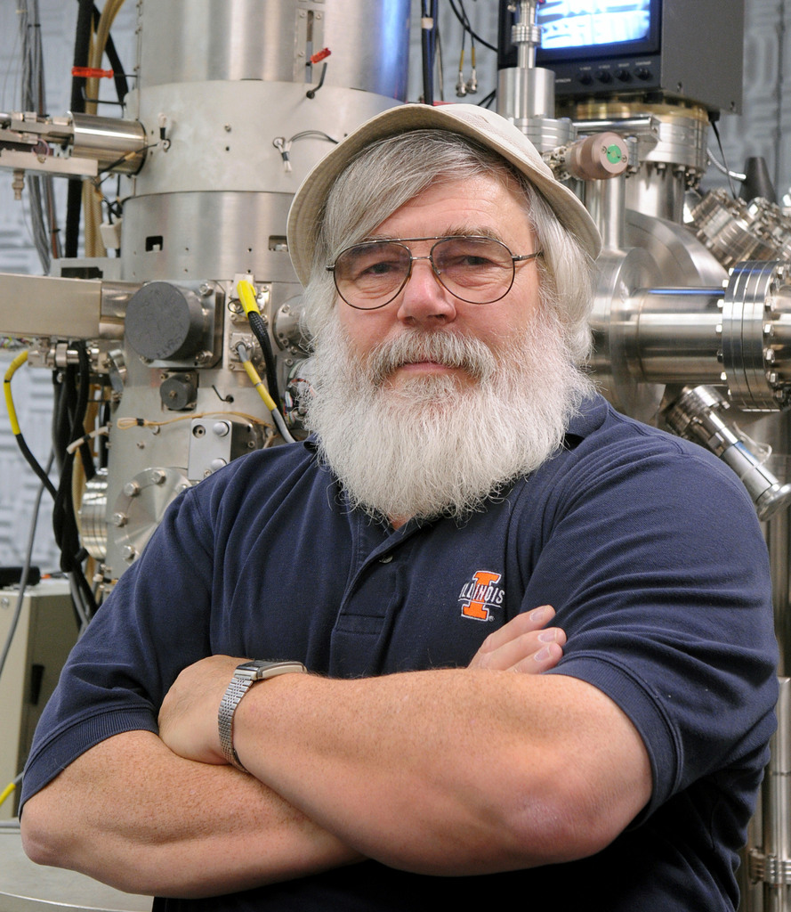 An official photo of Nestor J. Zaluzec from Argonne National Laboratory. Taken in 2009